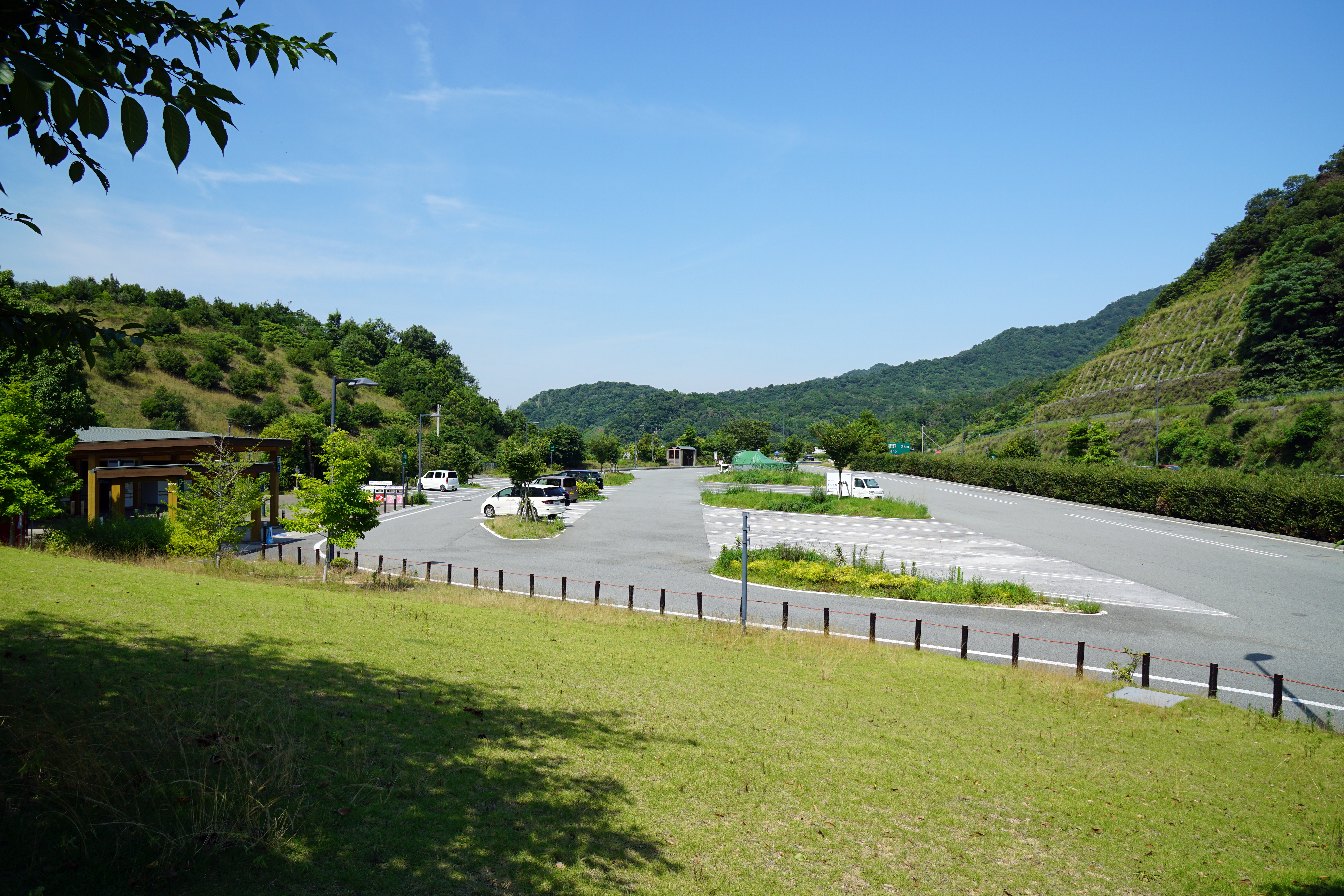 Narutonishi Parking Area in Naruto, Tokushima prefecture, Japan.